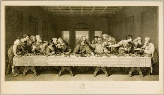 Etching of the Last Supper